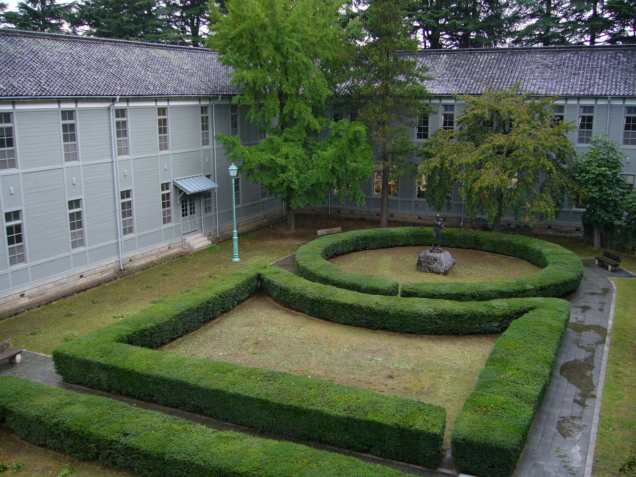 The Old Matsumoto Higher School in Matsumoto, Japan